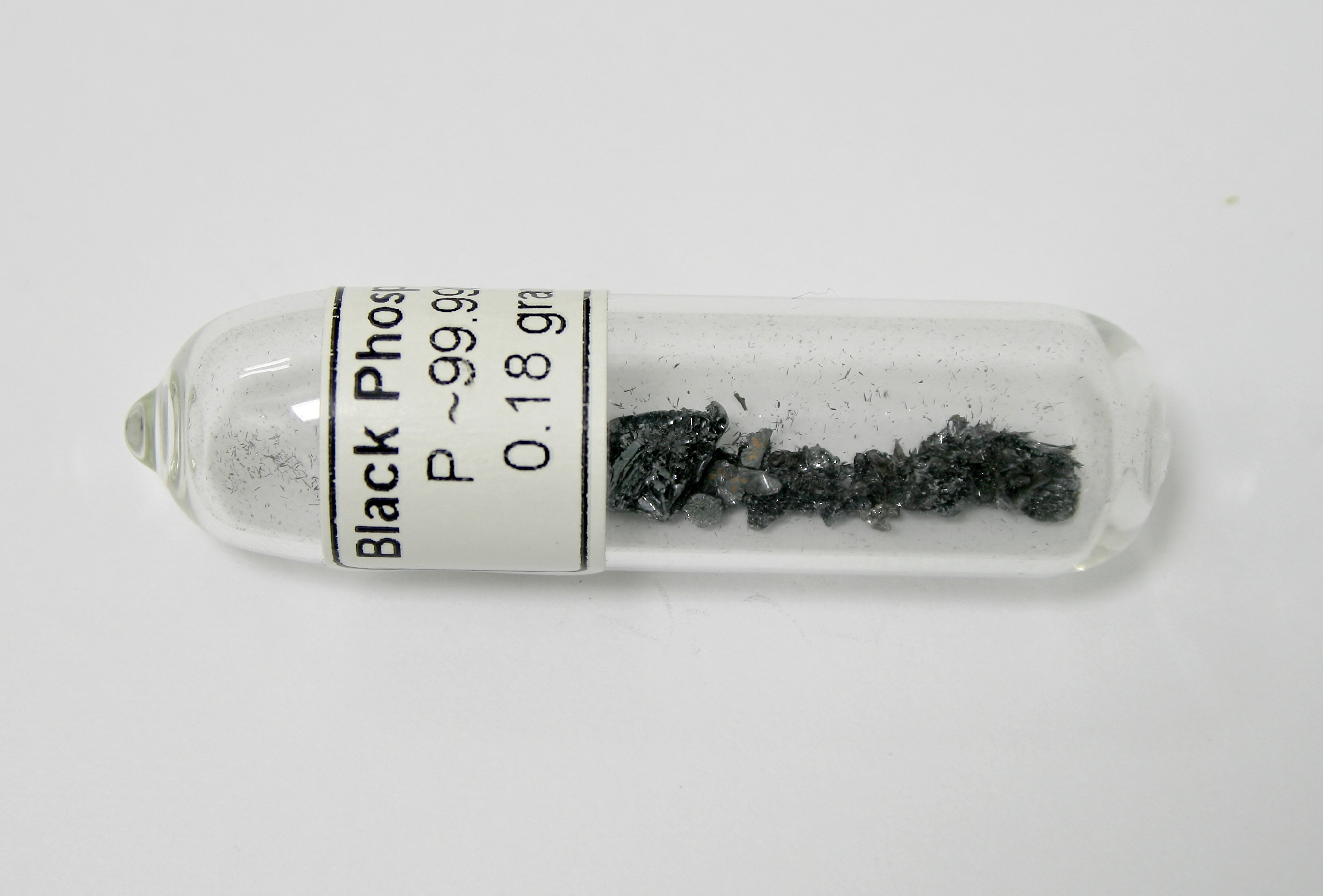 Crystals of Black Phosphorus in sealed ampoule.